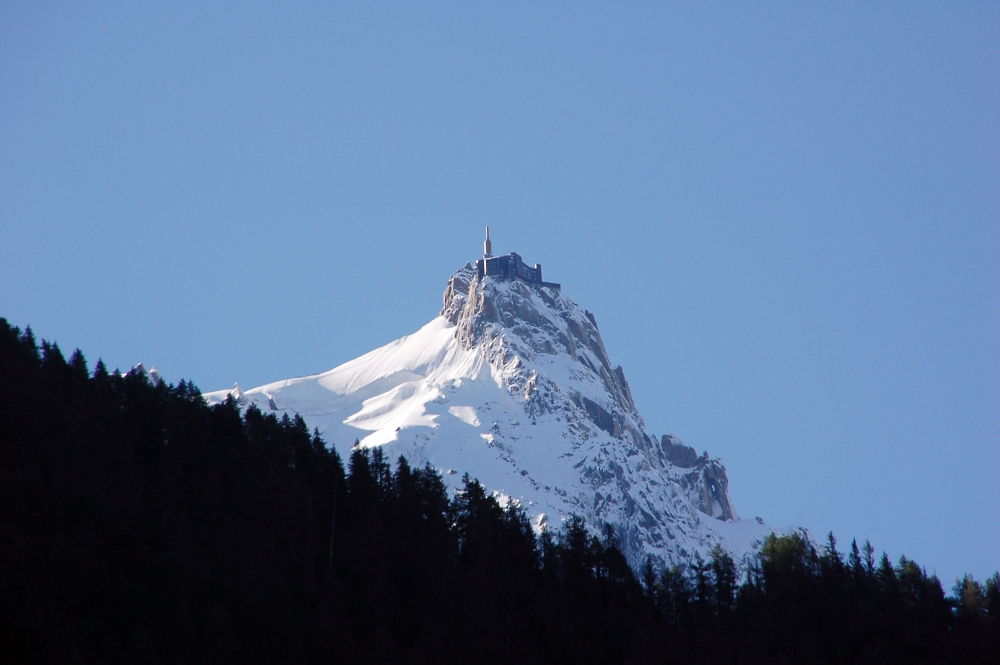 Aiguille du Midi, Haute-Savoie, France